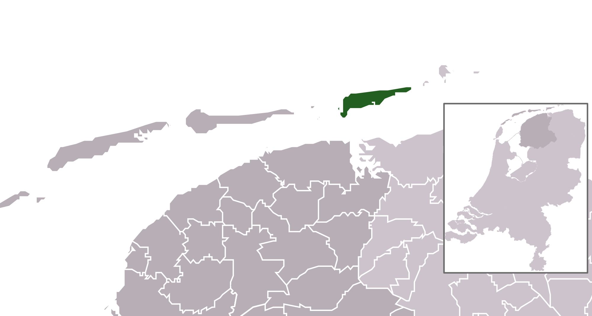 Location maps for the 441 municipalities in the Netherlands. Boundaries 1/1/2009 Automatically generated with script File name contains "Municipality code" (CBS-code) as specified in: [1] Created in svg using coordinate data derived from ESRI data published by Centraal Bureau voor de Statistiek, Voorburg/Heerlen. ([2]) Color coding and original design (slightly adpated by me) by user Mtcv (2006/2007) ([3]) Updated unitl January 1, 2014 The copyright holder of this file, Centraal Bureau voor de Statistiek, allows anyone to use it for any purpose, provided that the copyright holder is properly attributed. Redistribution, derivative work, commercial use, and all other use is permitted. Attribution: Centraal Bureau voor de Statistiek This work is free and may be used by anyone for any purpose. If you wish to use this content, you do not need to request permission as long as you follow any licensing requirements mentioned on this page.